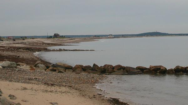 The Plymouth barrier beach, taken from Plymouth Beach village. The Myles Standish Monument in Duxbury is visble in the distance.